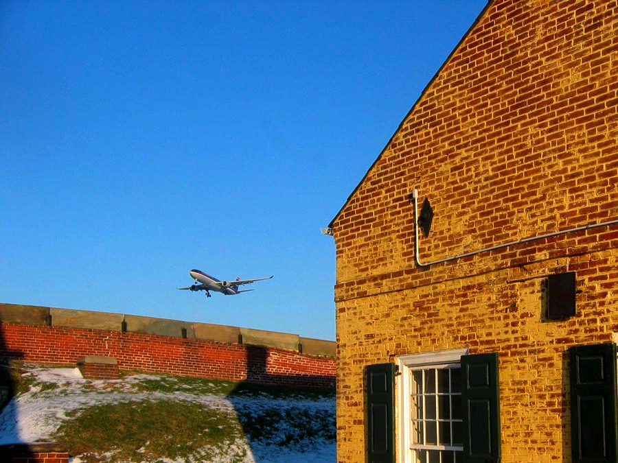 Fort Mifflin and Airport Taken in Philadelphia, Pennsylvania, in December 2003.